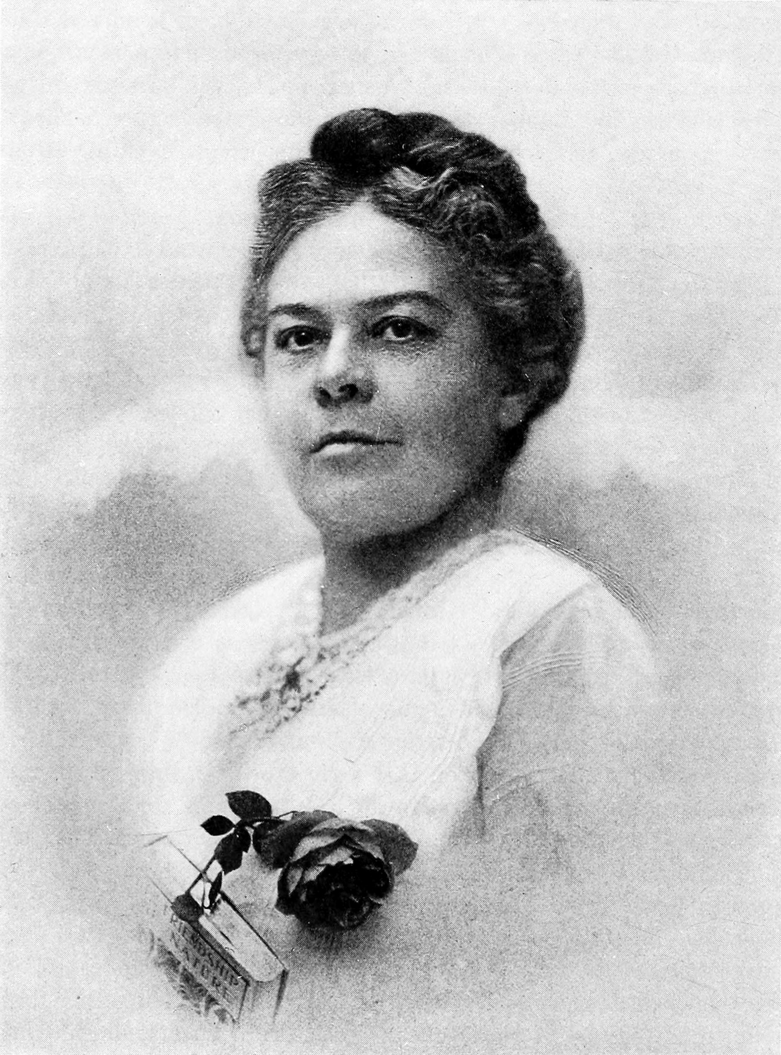 Mabel Osgood Wright, editor of Bird-Lore Magazine, author